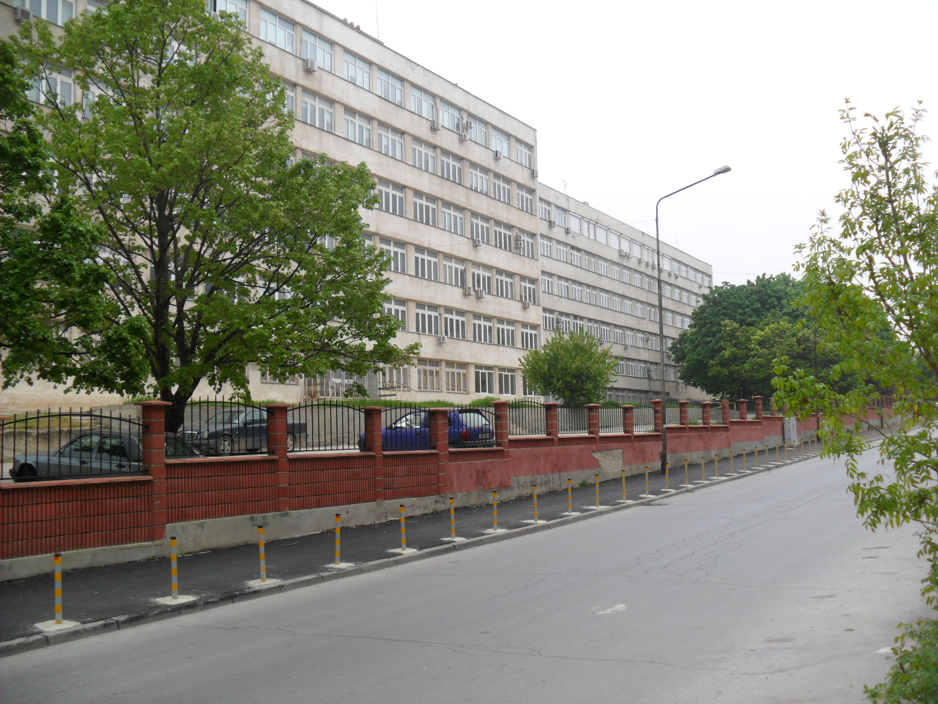 Photo taken on 1st May 2015